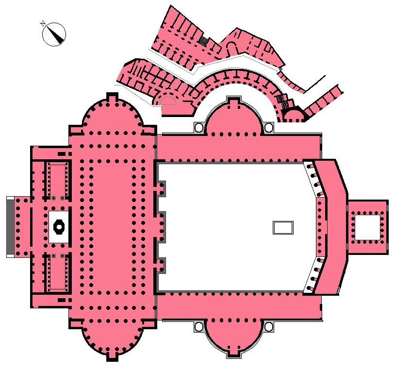 Imperial Trajan's fora in ancient Rome.